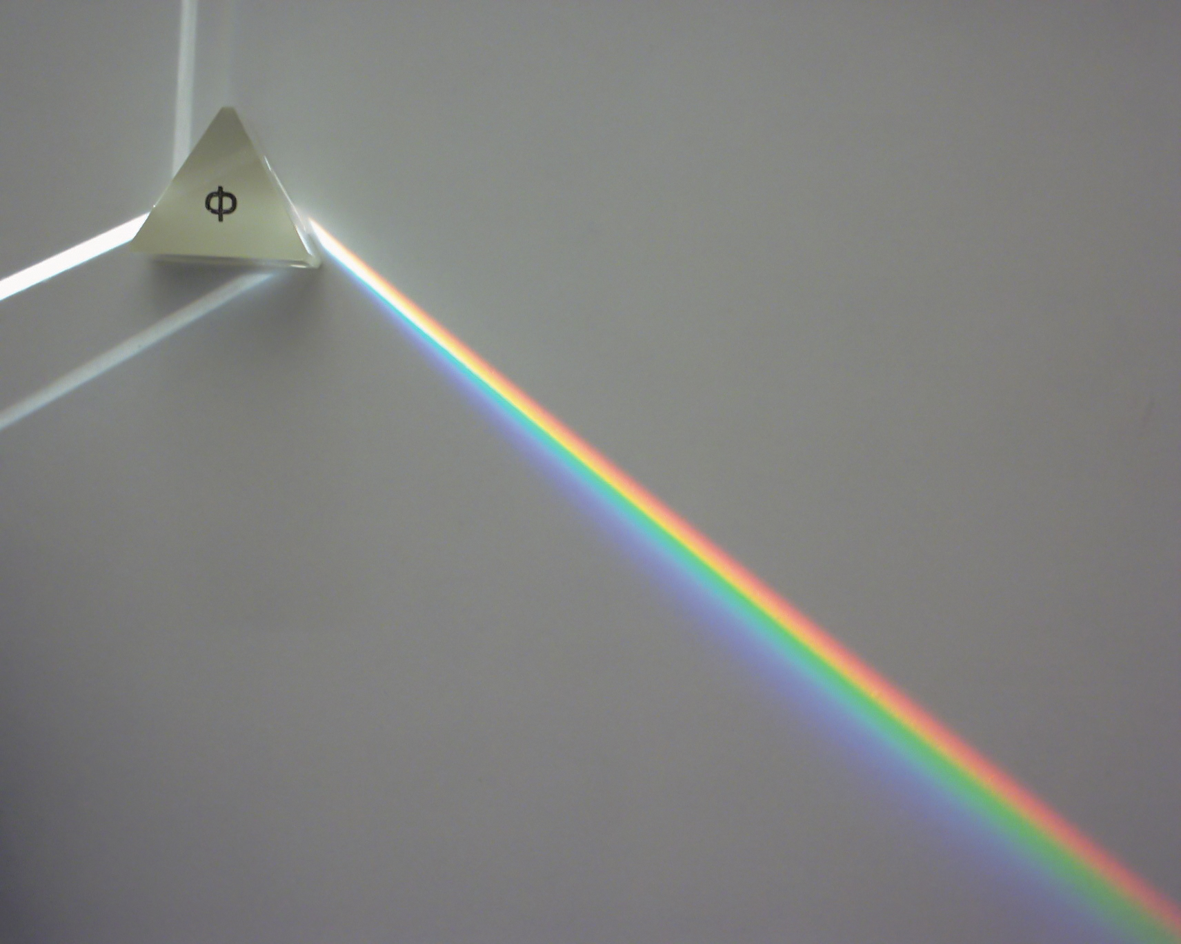 Dispersion on prism (flint glass).